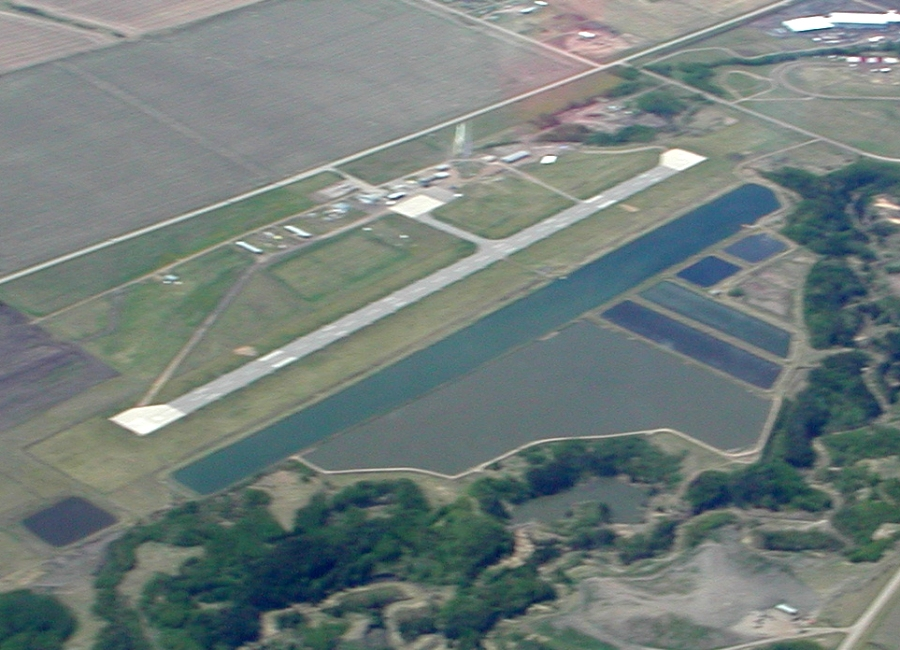 Dawson Creek Airport, BC. May 28, 2006